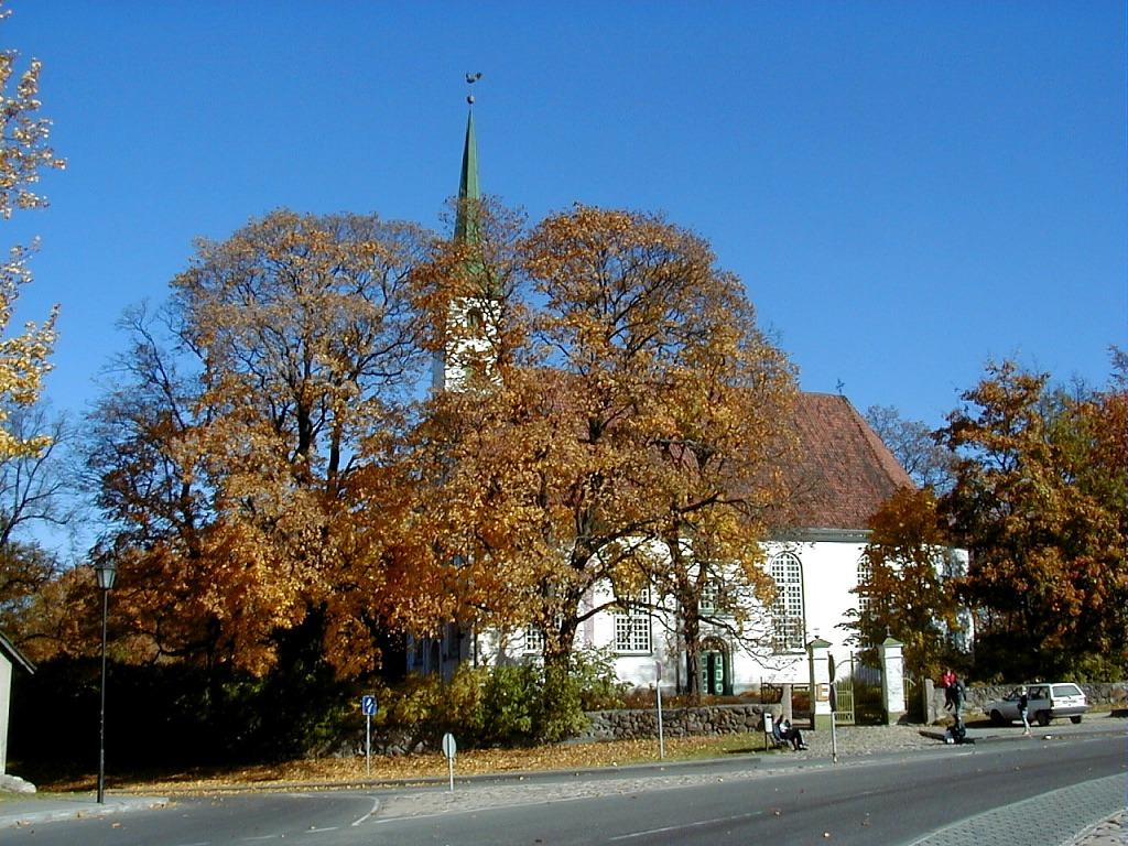 Limbaži Saint John Evangelical Lutheran ChurchLatviešu: Limbažu Svētā Jāņa evaņģēliski luteriskā baznīca